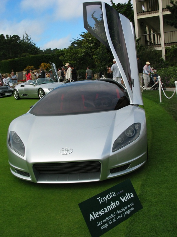 Pebble Beach Concours d'Elegance 2004